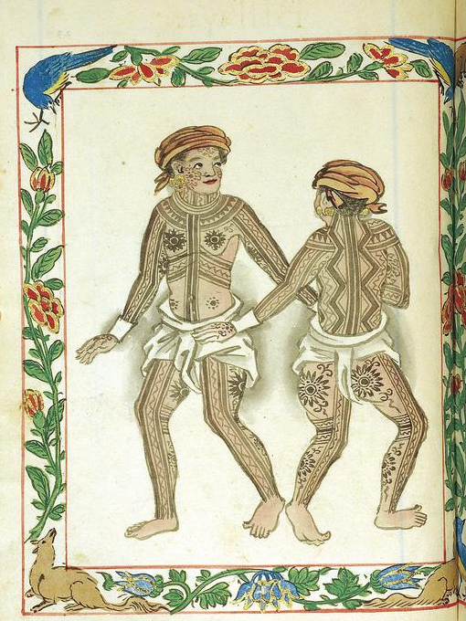 Pintados of the Visayas (Leyte or Samar)